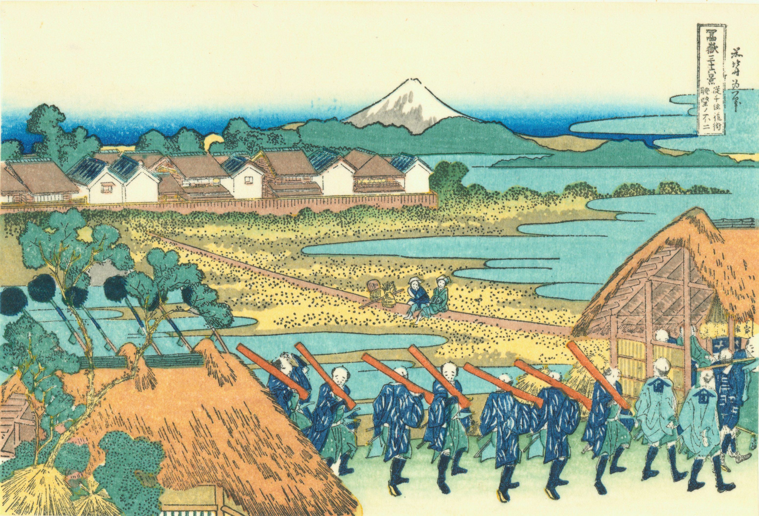 Part of the series Thirty-six Views of Mount Fuji, no. 15.